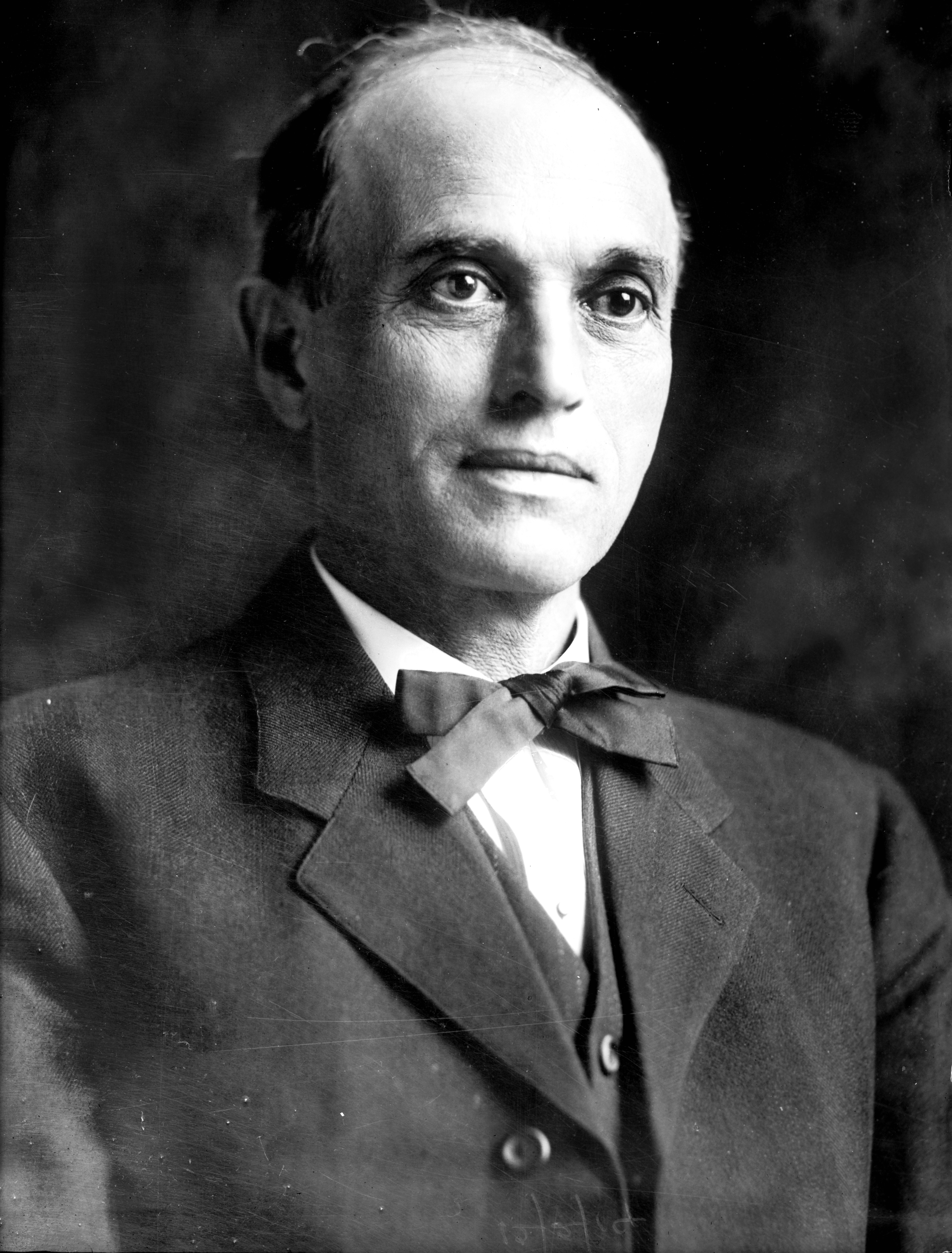 Photograph shows Moses Alexander (1853-1932), second elected Jewish governor of a U.S. state and 11th governor of Idaho from 1915-1919. (Source: Flickr Commons project, 2011)